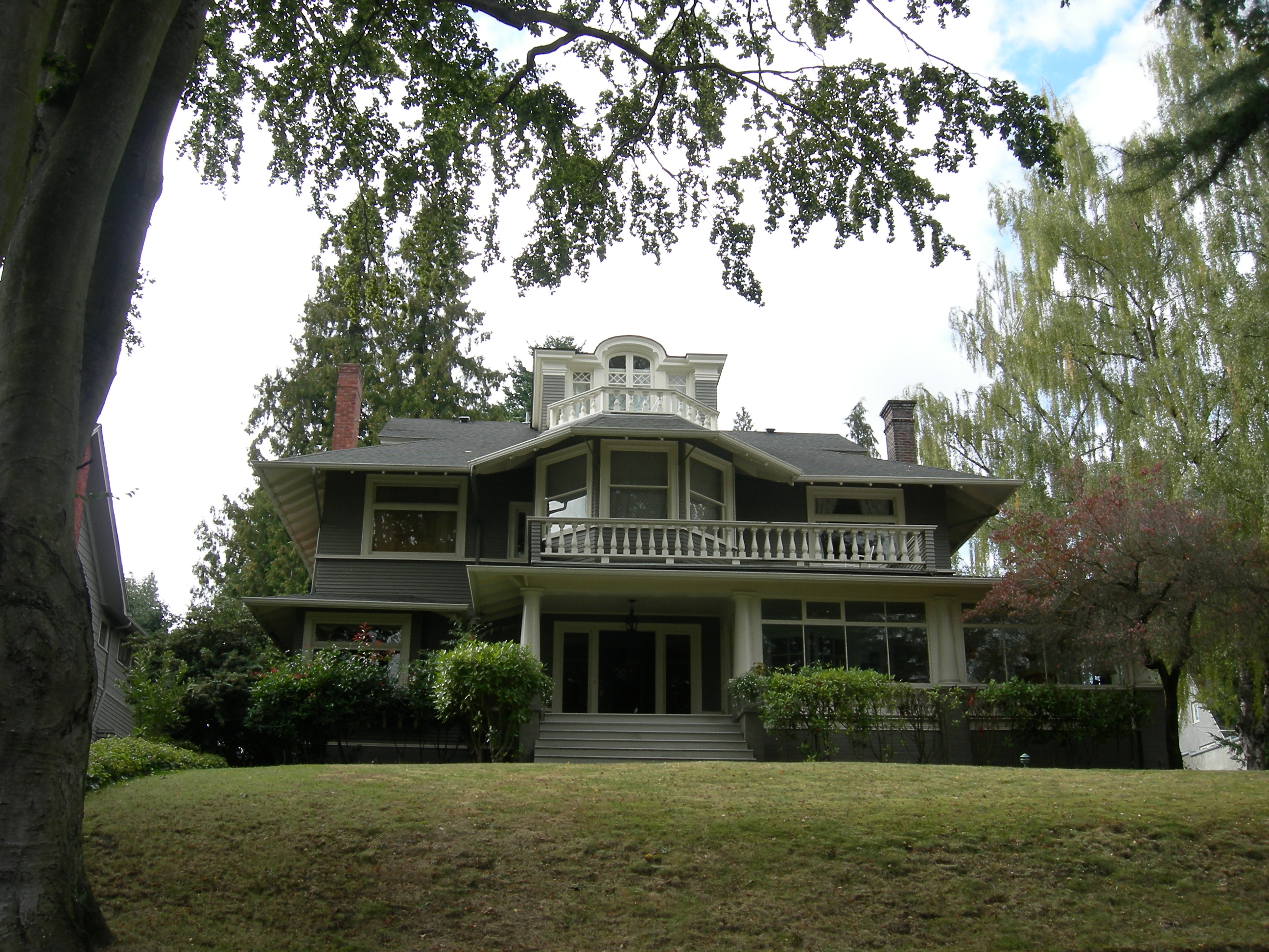 Richard A. Ballinger House, 1733 39th Avenue, Denny-Blaine neighborhood, Seattle, Washington, USA. Listed in the National Register of Historic Places, ID #76001886.